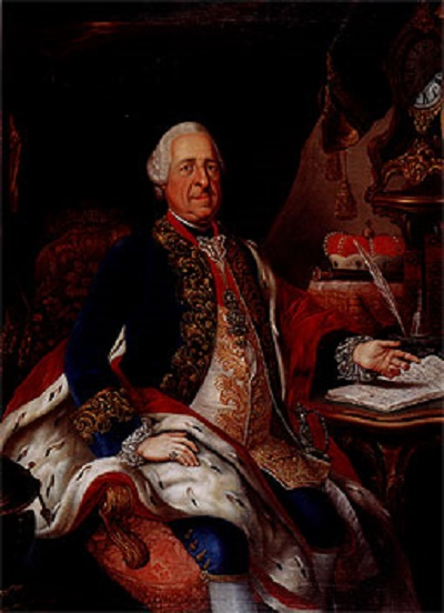 Portrait of Augustus George, Margrave of Baden-Baden